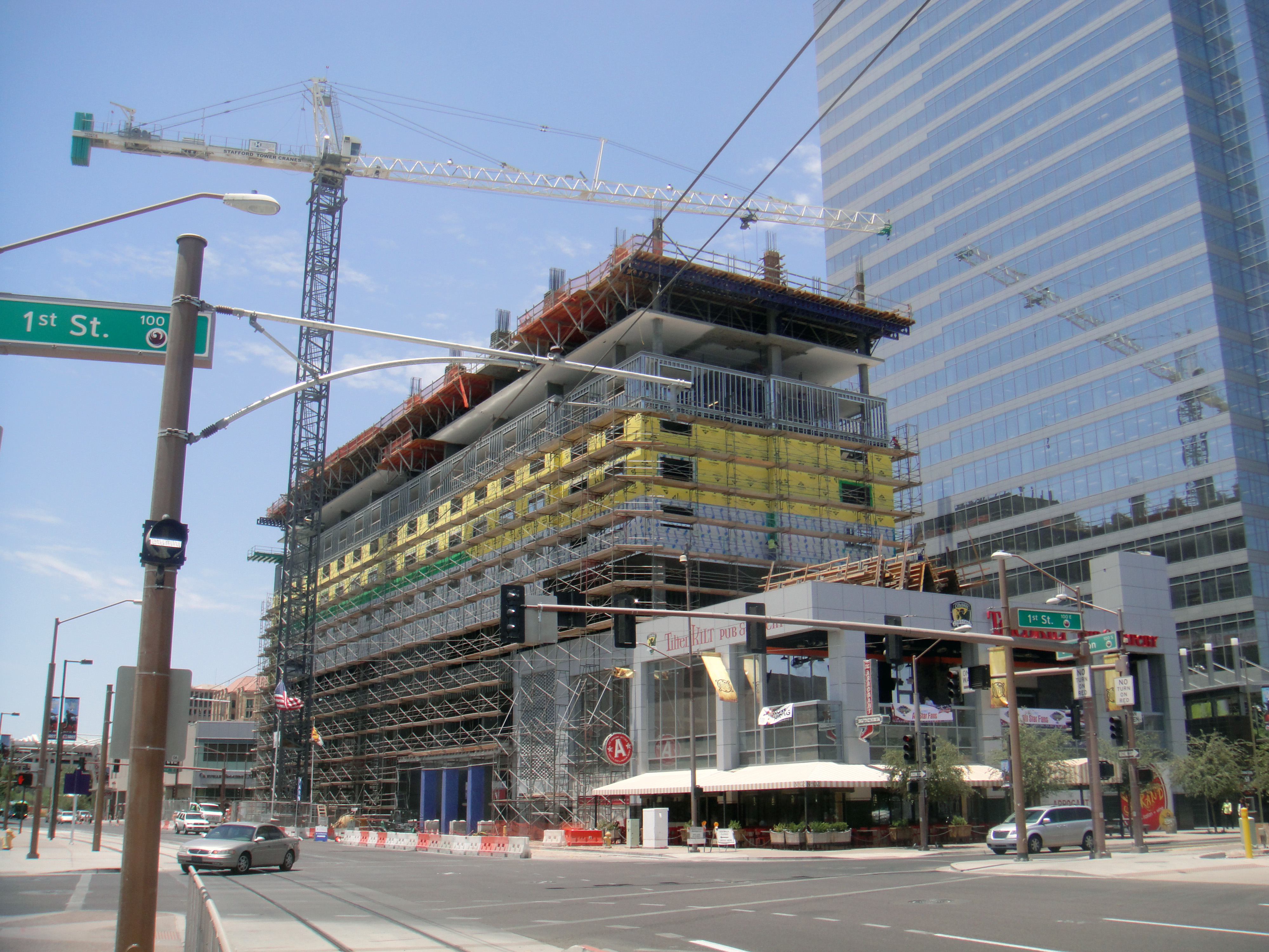 The Hotle Palomar, part of the Cityscape development in Downtown Phoenix, under construction